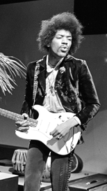 Hendrix 1967